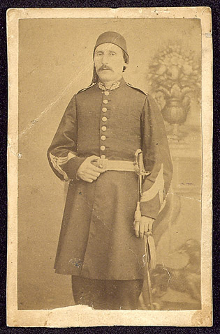 Nikoli Minchoglu by Demetrios Michailides